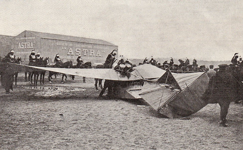 Louis Émile Train Monoplane, surrounded by cuirassiers, just after the crash that has killed the current Minister of War, Maurice Berteaux, May 21st, 1911.